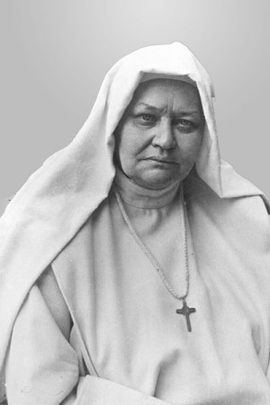 Maria Teresa Casini (1864-1937), Italian nun, foundress, blessed